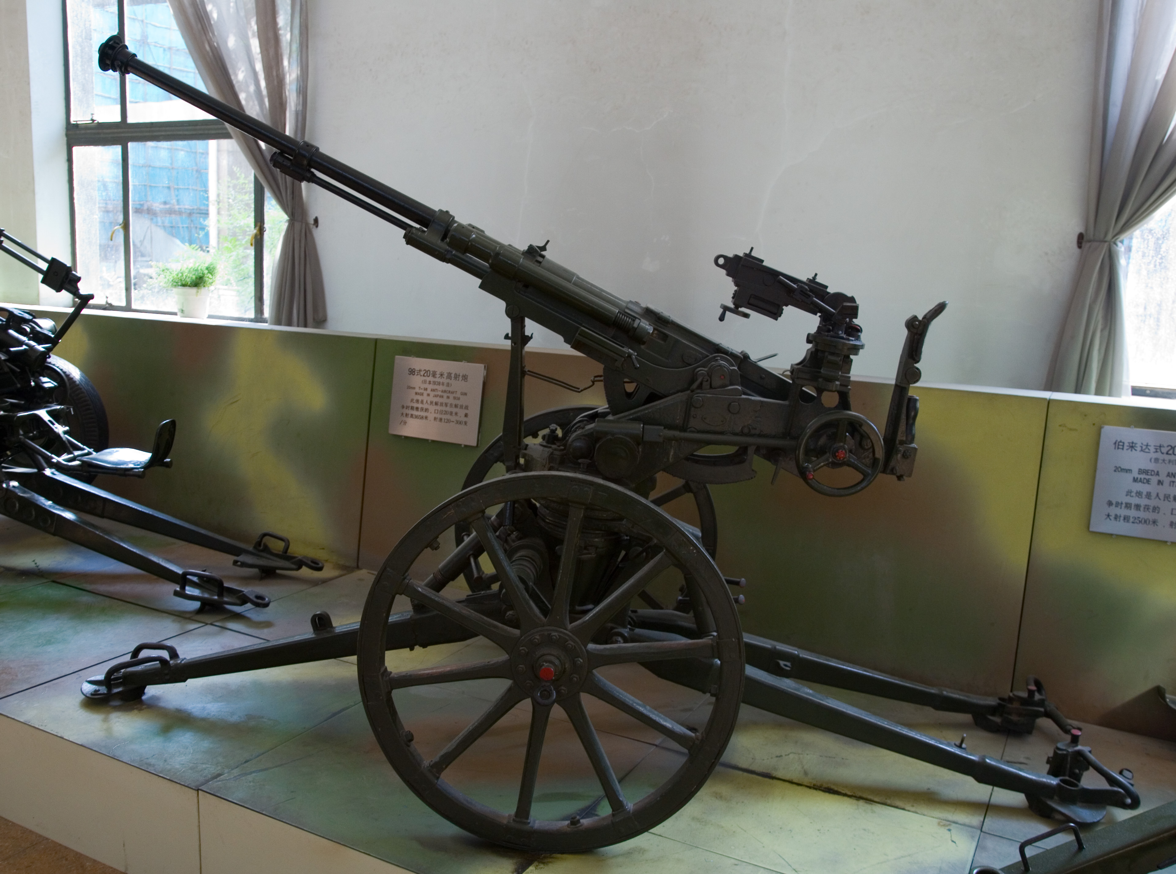 A Japanese Type 98 20 millimeter calibre anti-aircraft gun at the Beijing military museum